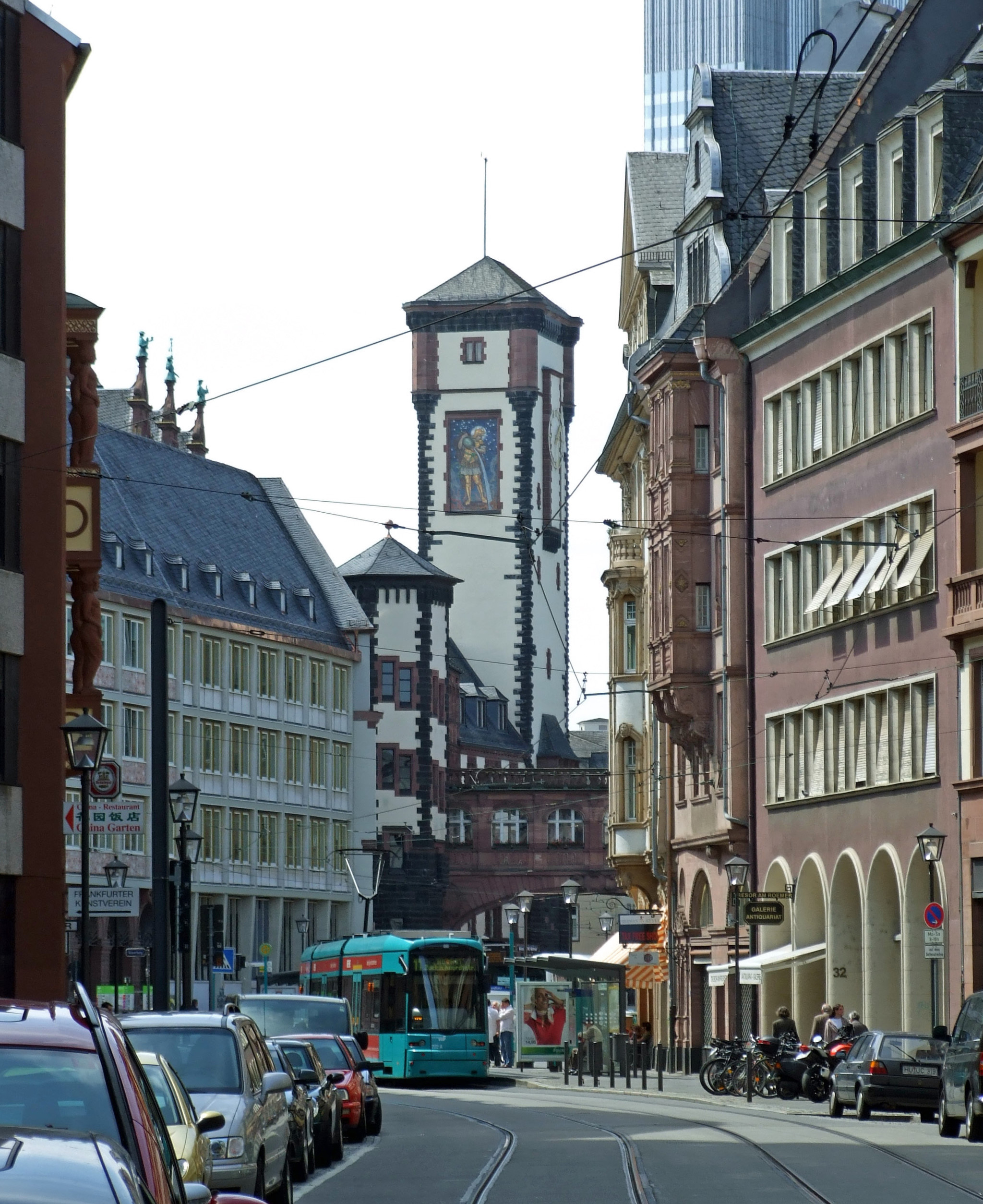 Braubachstrasse in Frankfurt am Main (view from east)